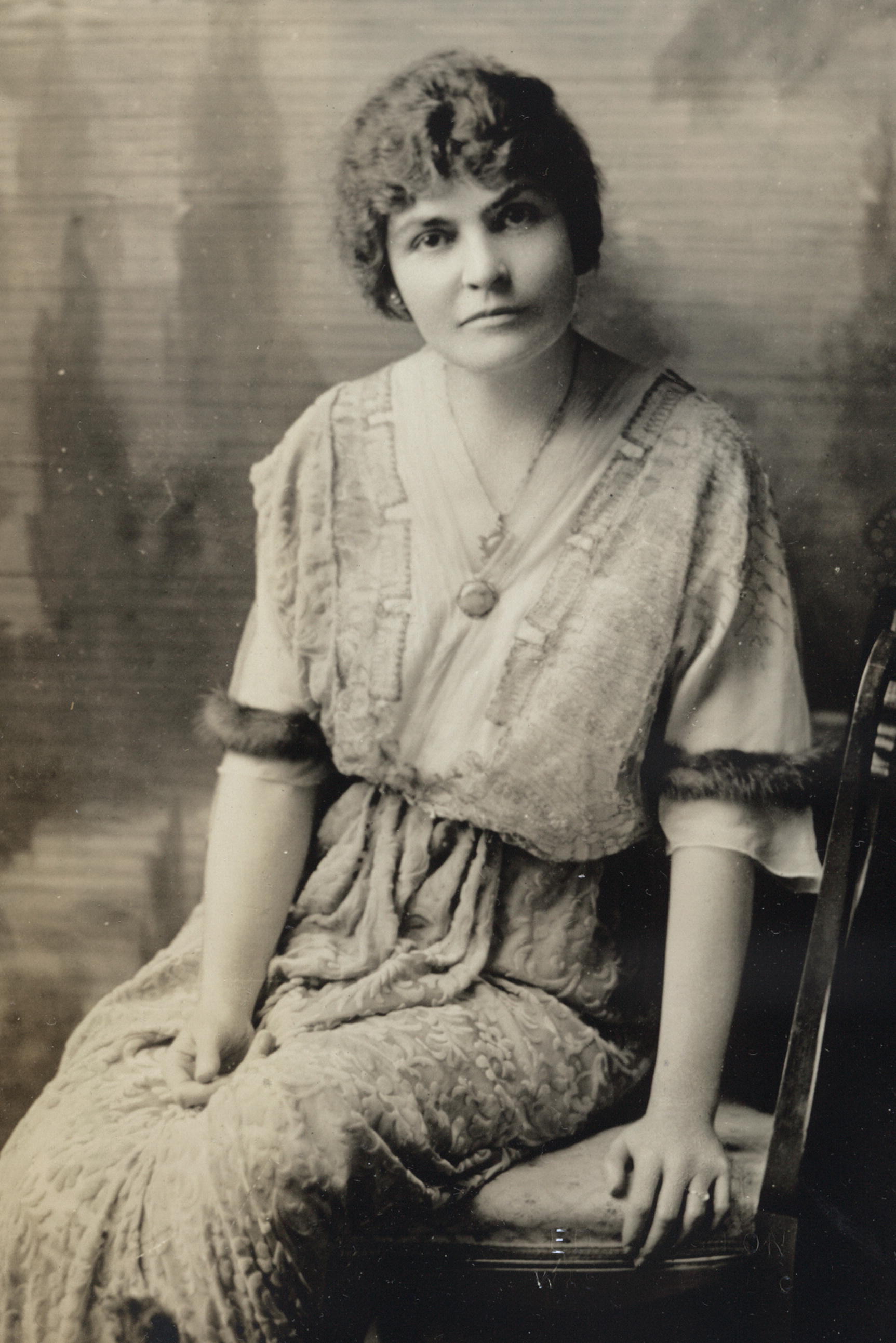 Summary: Formal portrait, full-length, seated, Lillian Harris Coffin, president of New Era League, wearing full-length dress with necklace and pendant. The caption on a cropped version of the same print in the same folder reads: "Mrs. Lillian Harris Coffin of California is one of the prominent members of the Advisory Council of the Congressional Union for Woman Suffrage. Mrs. Coffin is President of the New Era League of California and one of the most prominent club women in that State. Her strong support of the Congressional Union has been a great strength to the Union in its work with the women voters."